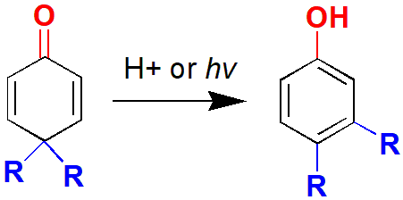 Myself Draw the chemical structures by using chemdraw and converted to png format